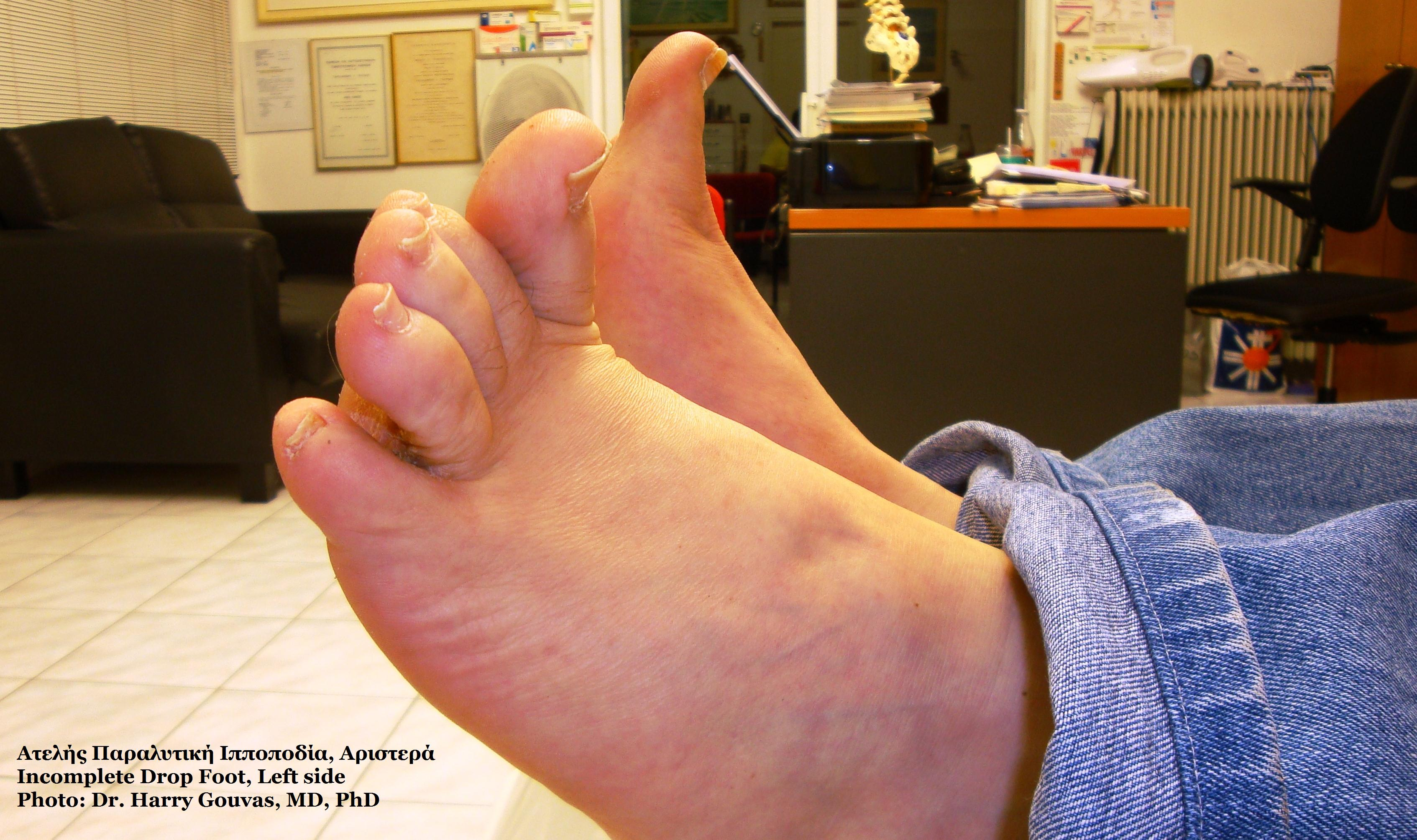 Incomplete drop foot, left